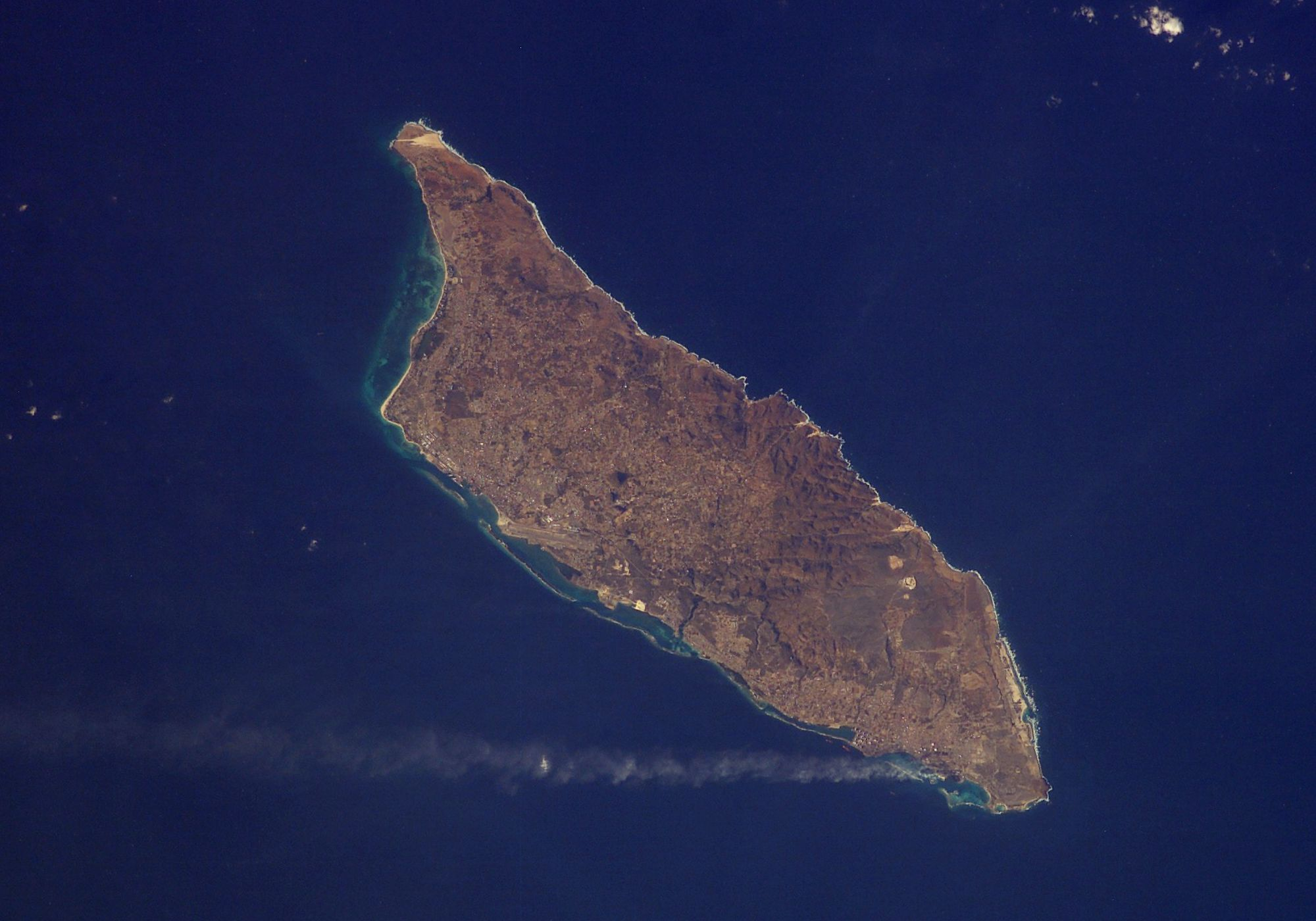 NASA atronaut image of Aruba in the Caribbean Sea